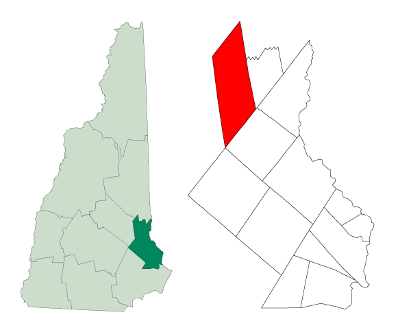 Created from Boundary/Border Outline Files of the Libre Map Project which held a BY-SA creative commons license. Data origionally from 2000 US Census boundary data.